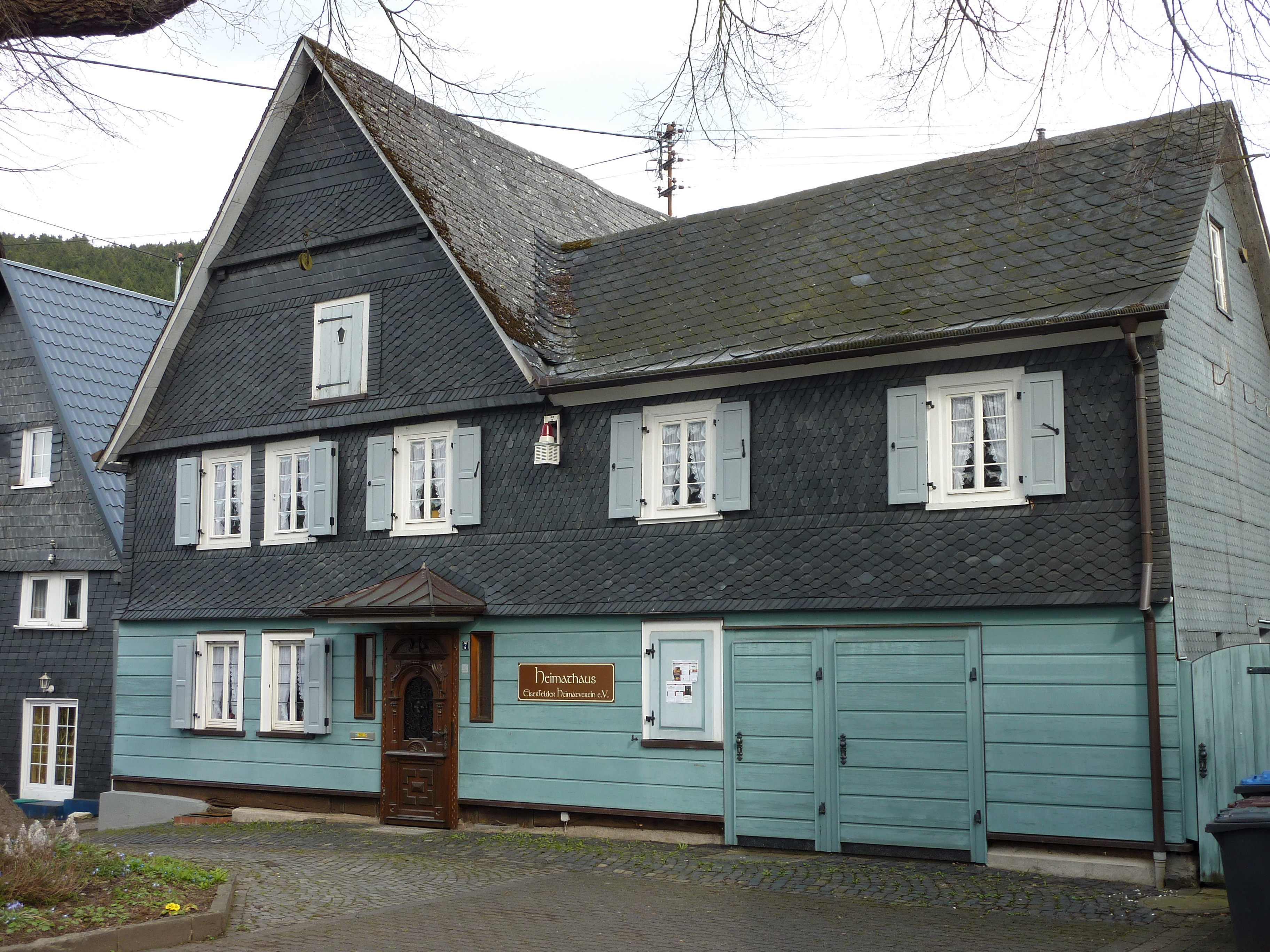 City of Siegen (Westphalia, Germany): The Heimathaus, local museum in the borough of Eiserfeld.